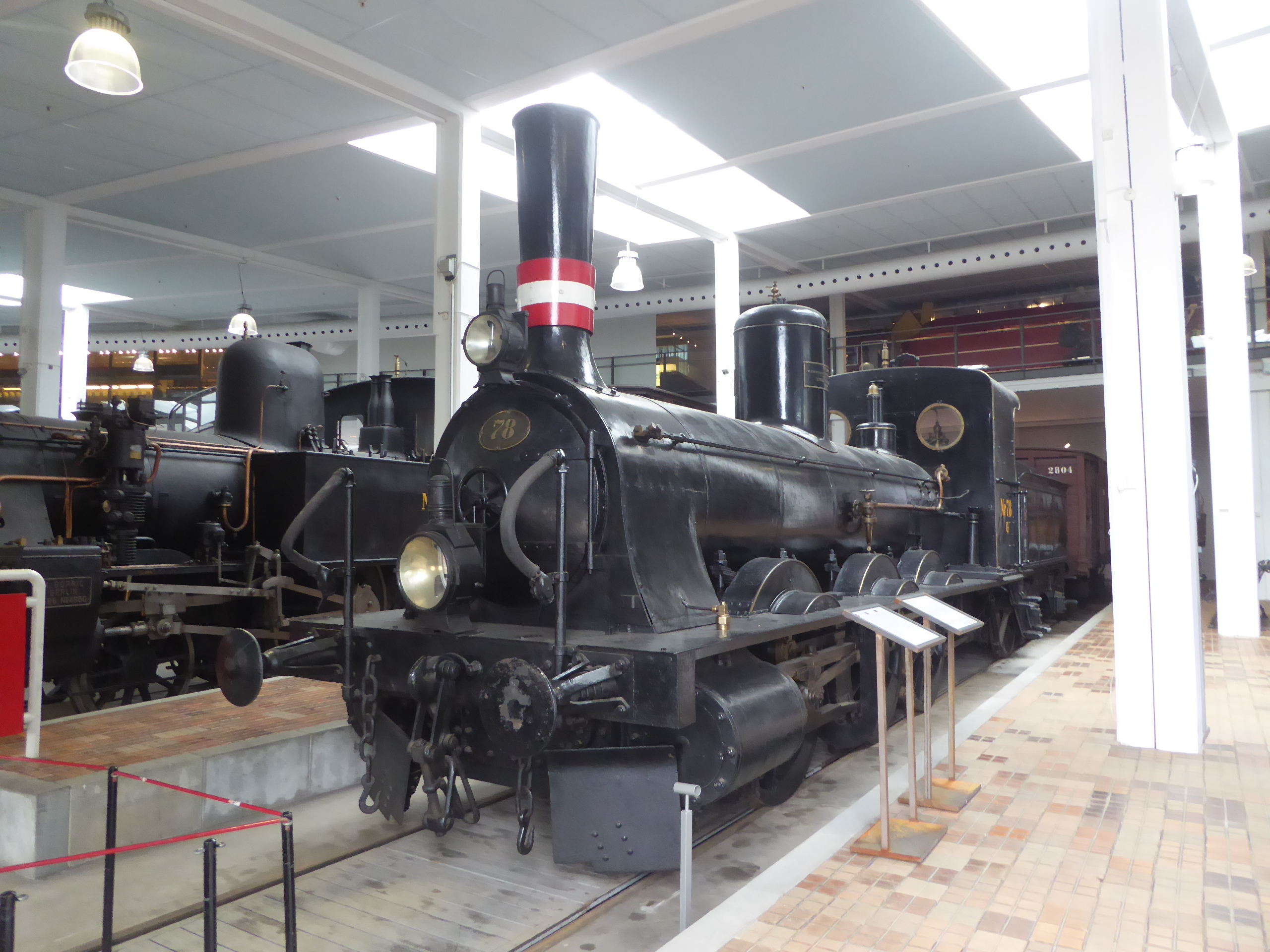 The steam locomotive DSB G 78 build by Maschinenfabrik Esslingen in 1875 at Danmarks Jernbanemuseum in Odense.